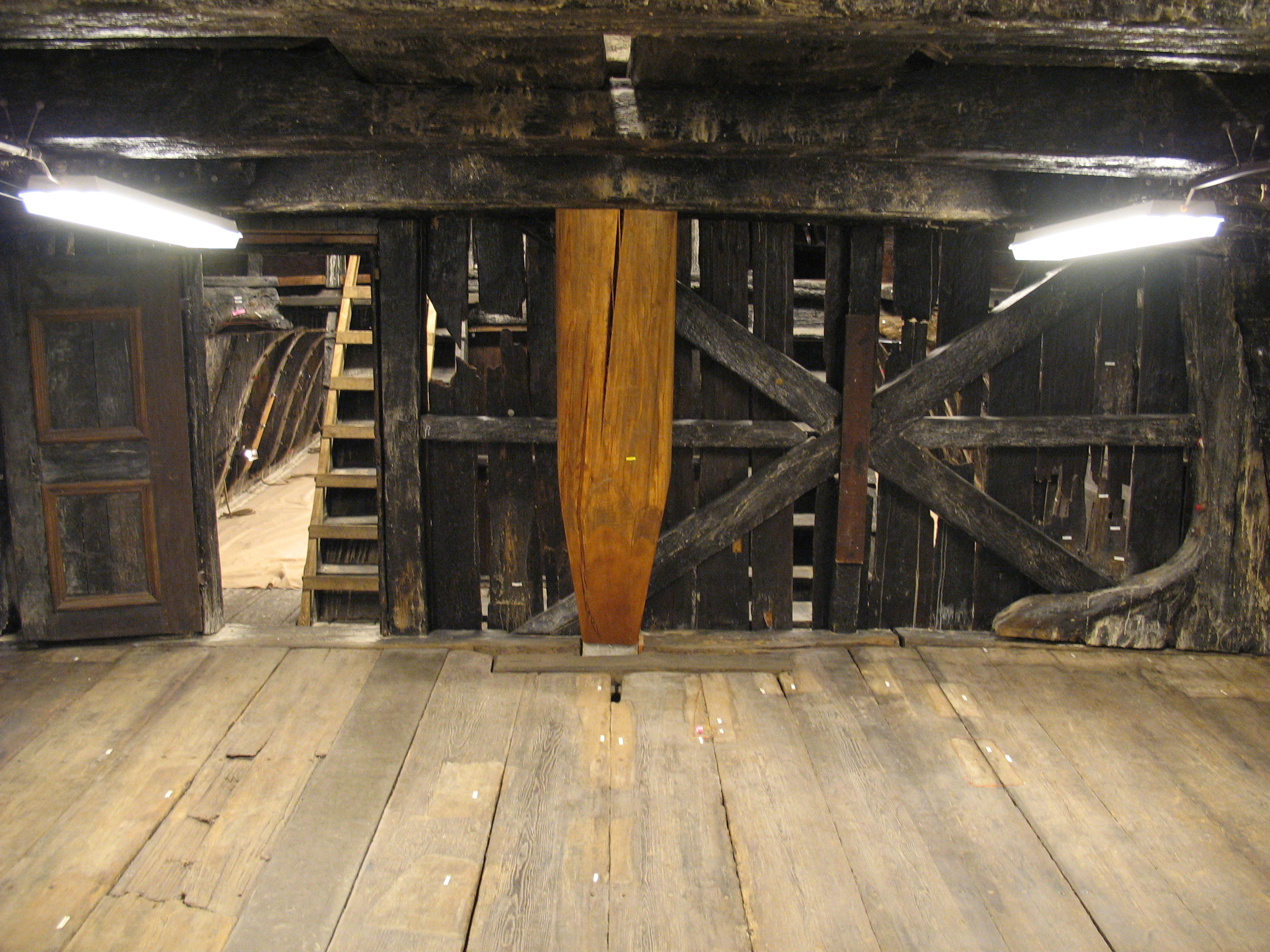 The base of the mizzen mast of the warship Vasa, displayed in the Vasa Museum in Stockholm, Sweden. Picture taken inside the ship on upper gun deck level looking forward.